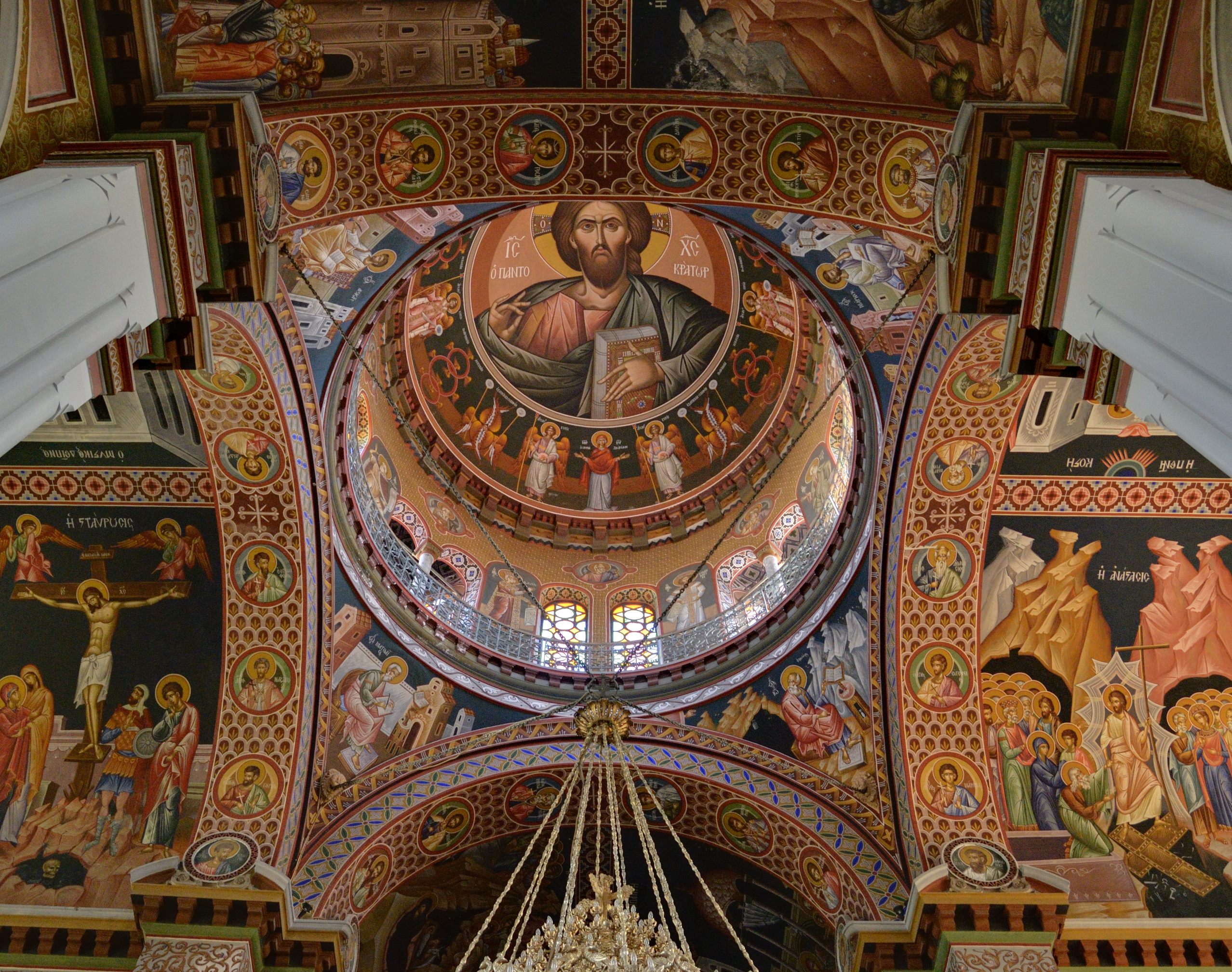 Iraklion: Agios Minas cathedral